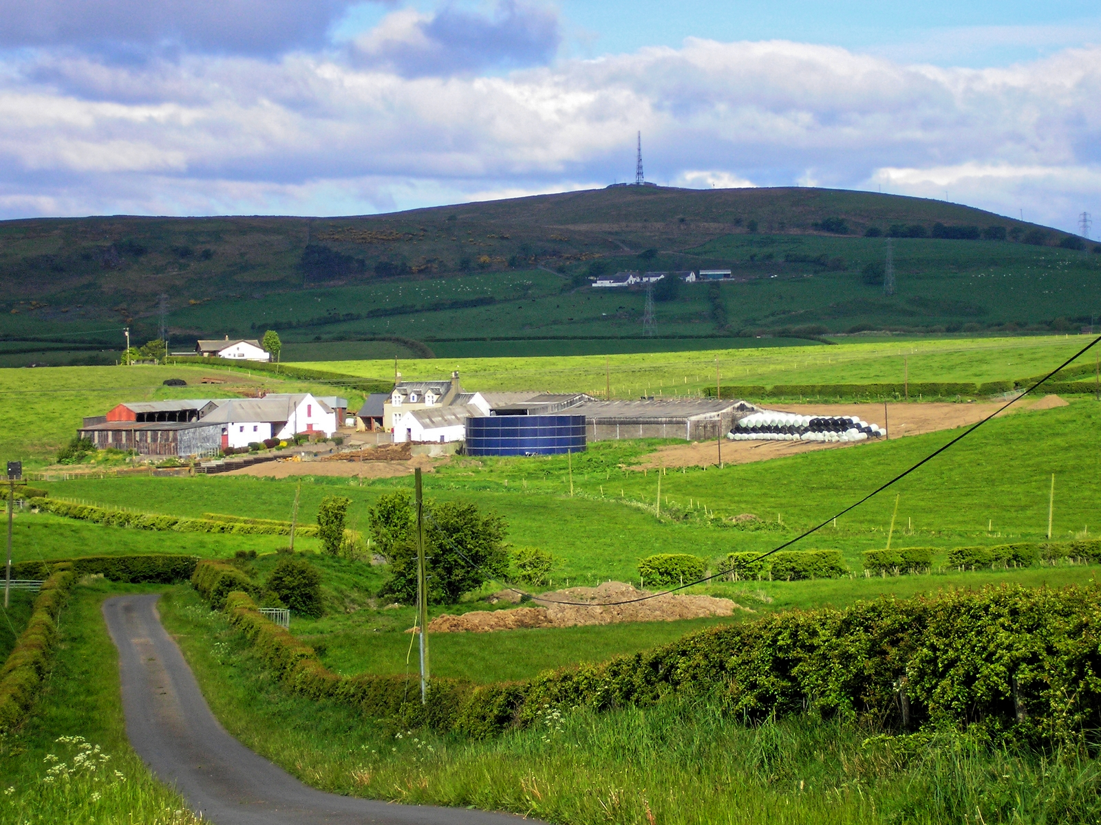 Caddell Farm. Caddell Farm with Meikle Ittington farm behind it to the right and Knockwart Farm on the hill in the distance with the Communications Tower on Knockewart Hills above it.